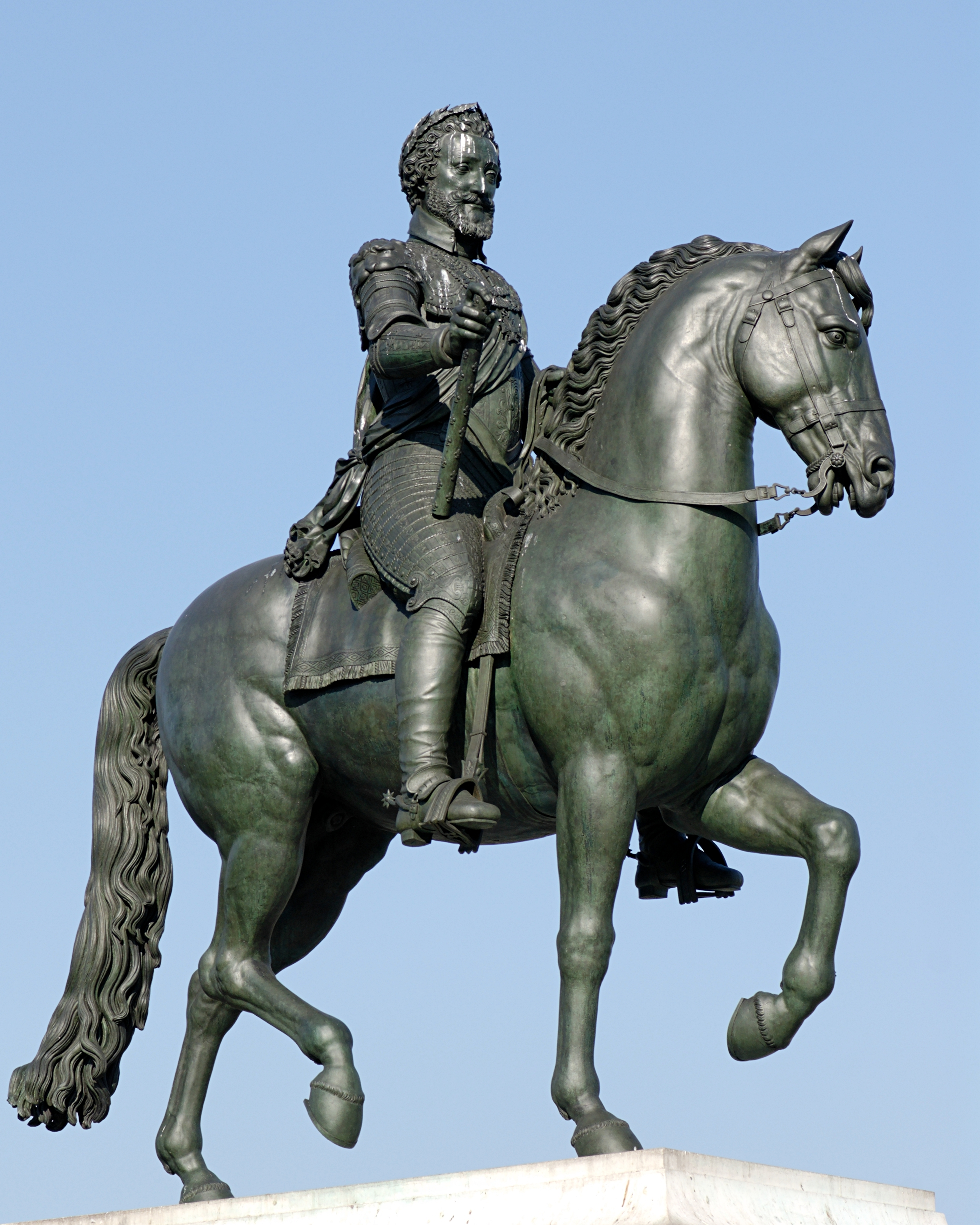 Equestrian portrait of Henry IV of France